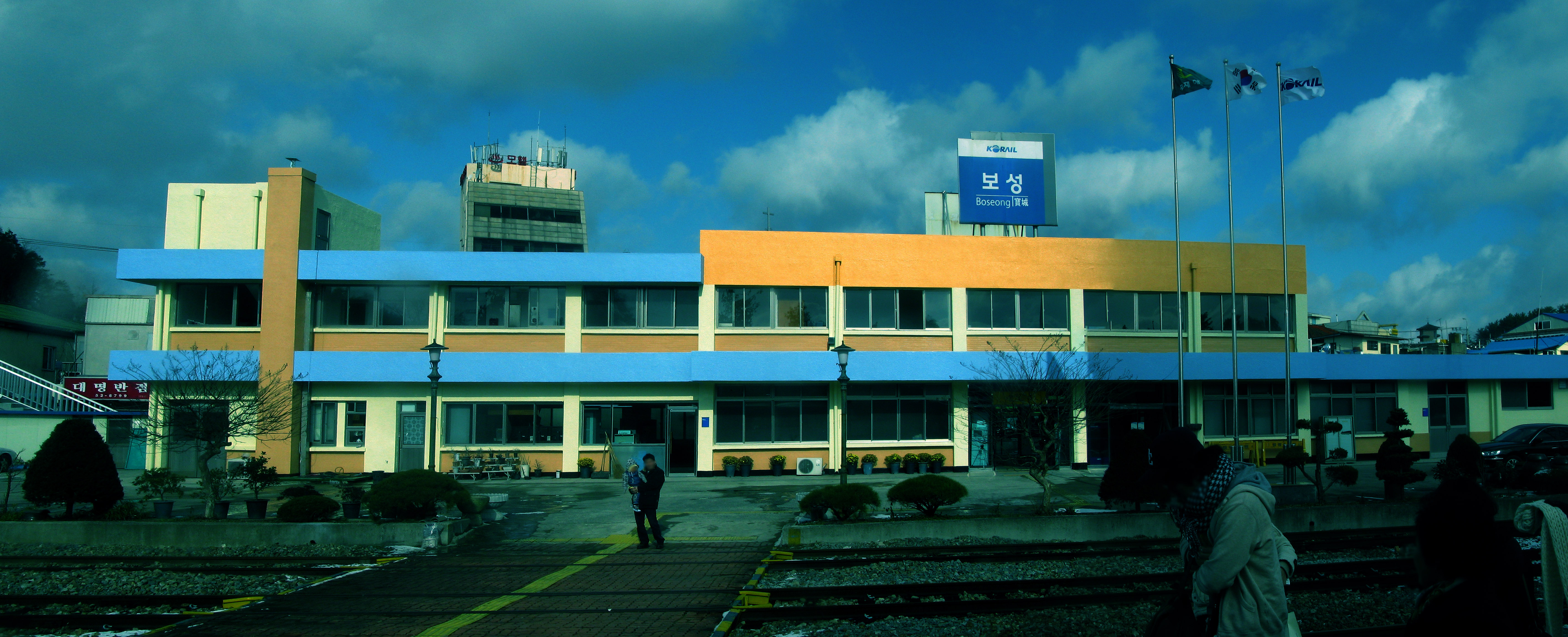 Gyeongjeon Line Boseong Station